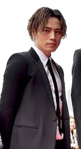 Hiroomi Tosaka @ SSFF Asia 2018 (cropped)